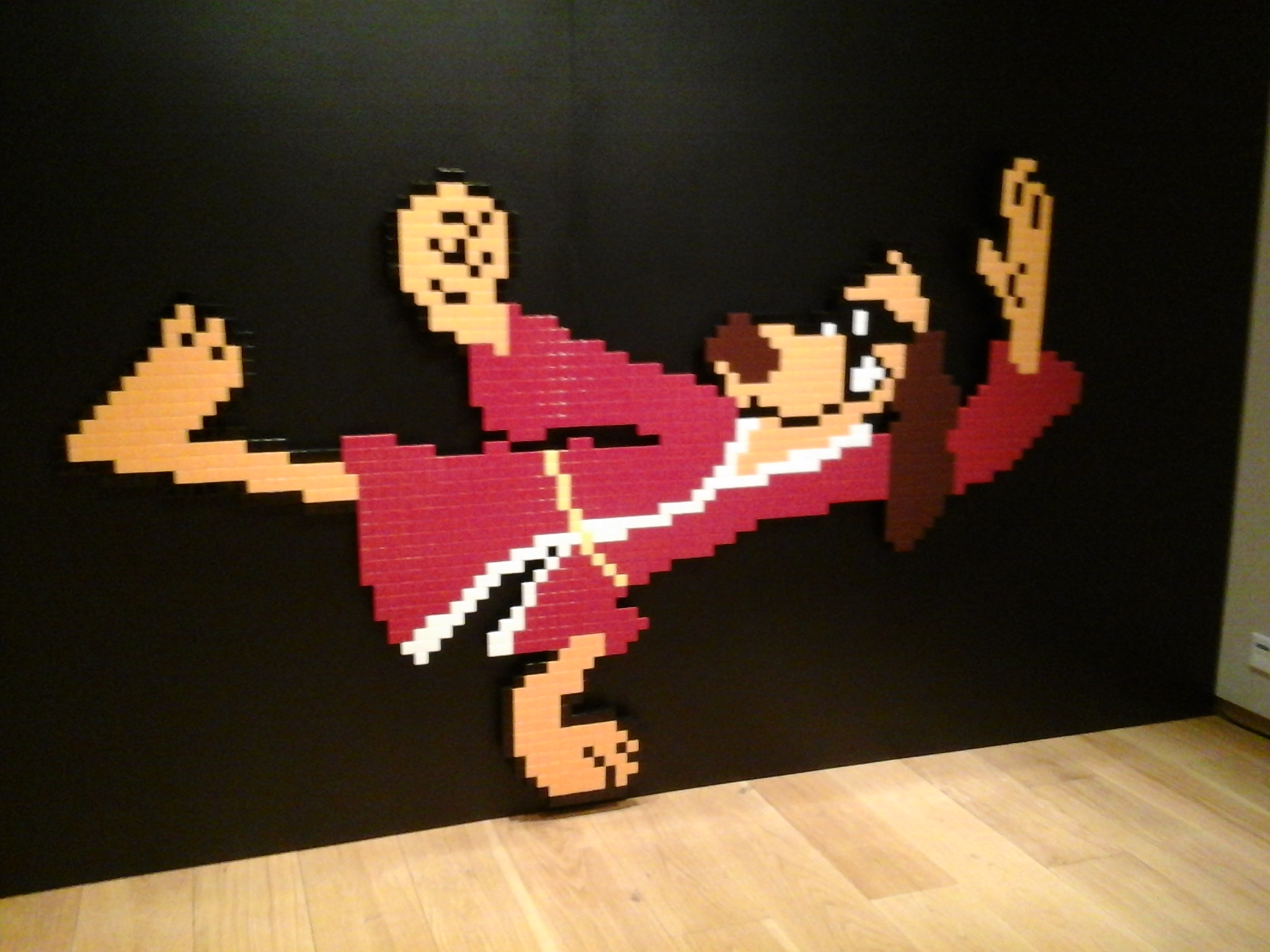 Kung fu mosaic by Invader at Sotheby's, Hong Kong. Invader had already installed a nearly identical mosaic (HK 58, Hong-Kong 2014 / 100 PTS) on a house wall in Hong Kong in 2014.